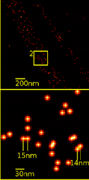 Superresolution Microscopy/ Optical nanoscopy using SPDMphymod as a new localization microscopy technique for standard fluorescent dyes SPDMphymod image of protein distribution in a human cancer cell. Enlarged inserts above and below: Positions of single fluorescent molecules in Gaussian intensity shape of 5 nm standard deviation. Typical distance measurements in the 15 nm range are highlighted (Christoph Cremer lab/KIP, University of Heidelberg. Fundamental to SPDMphymod are blinking phenomena (flashes of fluorescence), induced by reversible bleaches (metastable dark states). Individual molecules of the same spectral emission color can be detected. Counting individual molecules up to a density of 1000/µm2 – at present, this is possible in an area of up to 5000 µm2. Basic publications: Lemmer P, Gunkel M, Baddeley D, Kaufmann R, Urich A, Weiland Y, Reymann J, Müller P, Hausmann M, Cremer C: SPDM – Light Microscopy with Single Molecule Resolution at the Nanoscale. In: Applied Physics B 2008; 93: 1–12 Manuel Gunkel, Fabian Erdel, Karsten Rippe, Paul Lemmer, Rainer Kaufmann, Christoph Hörmann, Roman Amberger and Christoph Cremer: Dual color localization microscopy of cellular nanostructures. In: Biotechnology Journal, 2009, 4, 927-938. ISSN 1860-6768